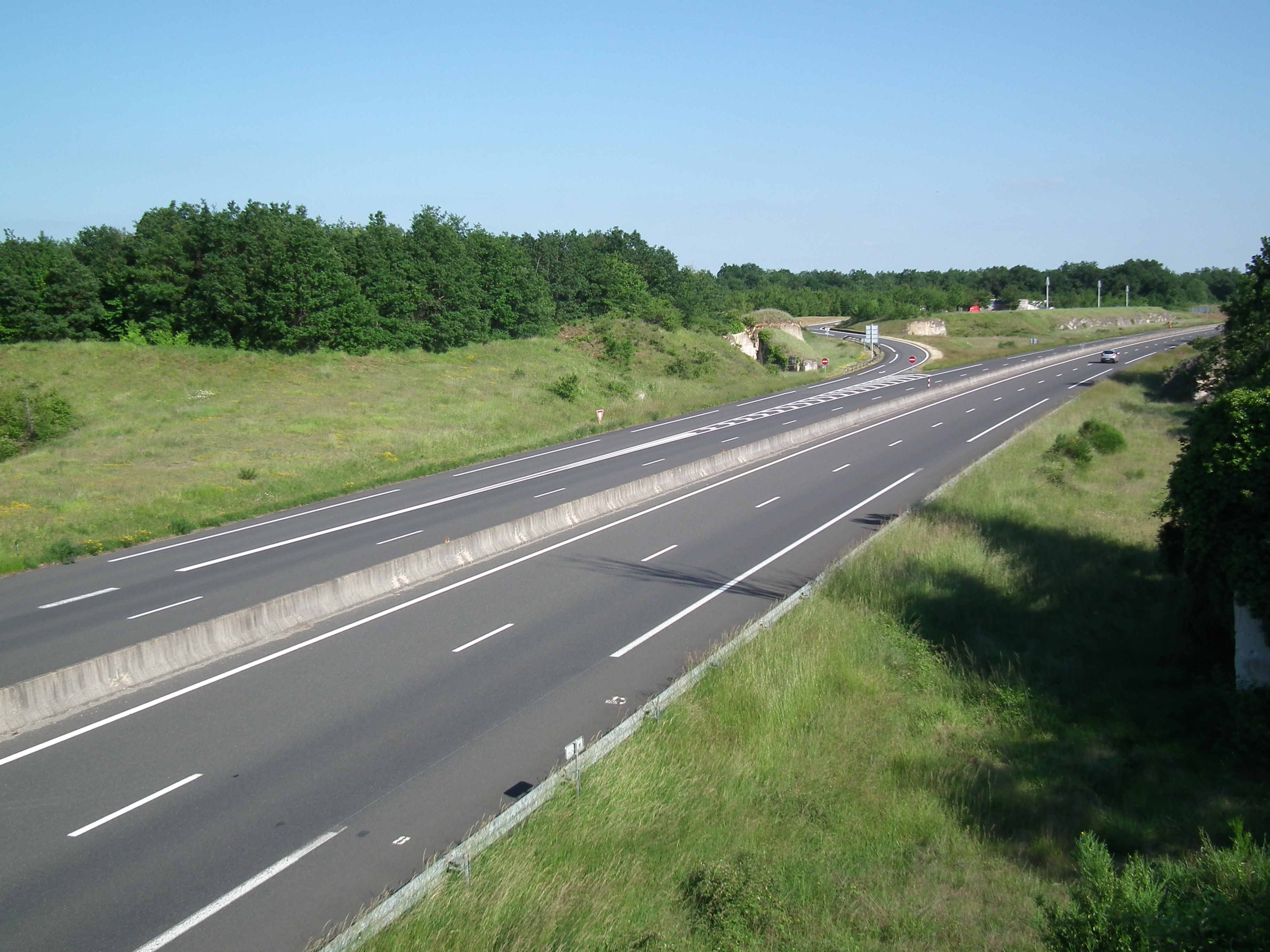 The French A837 highway, seen in direction of Saintes.The rest area dedicated to the Crazannes Stone can be seen.Photograph taken in the commune of Plassay.